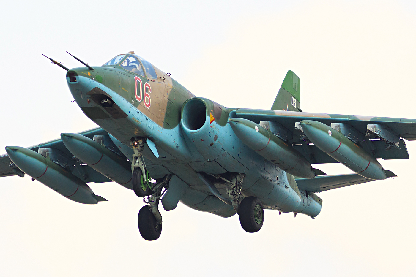 Sukhoi Su-25 of the Russian Air Force landing at Chernigovka Air Base